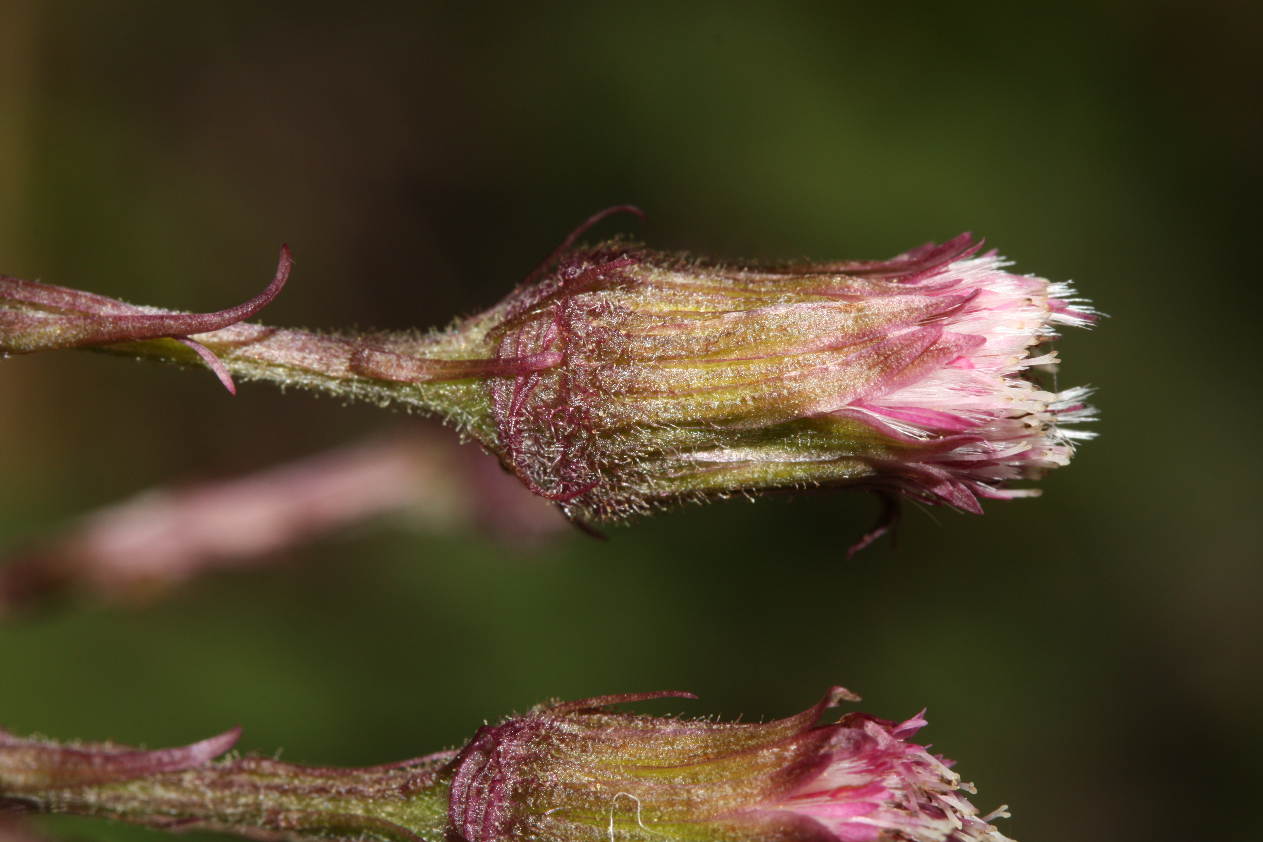 Sweet Coltsfoot, Alpine or Arctic Butterbur; auth. (L.) Fr.